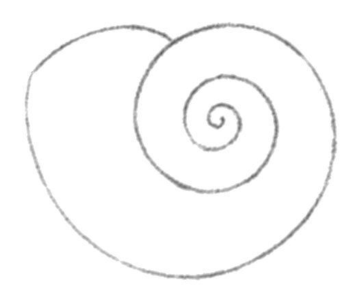 Drawing of an umbilical view of the shell of Choanomphalus maacki maacki.